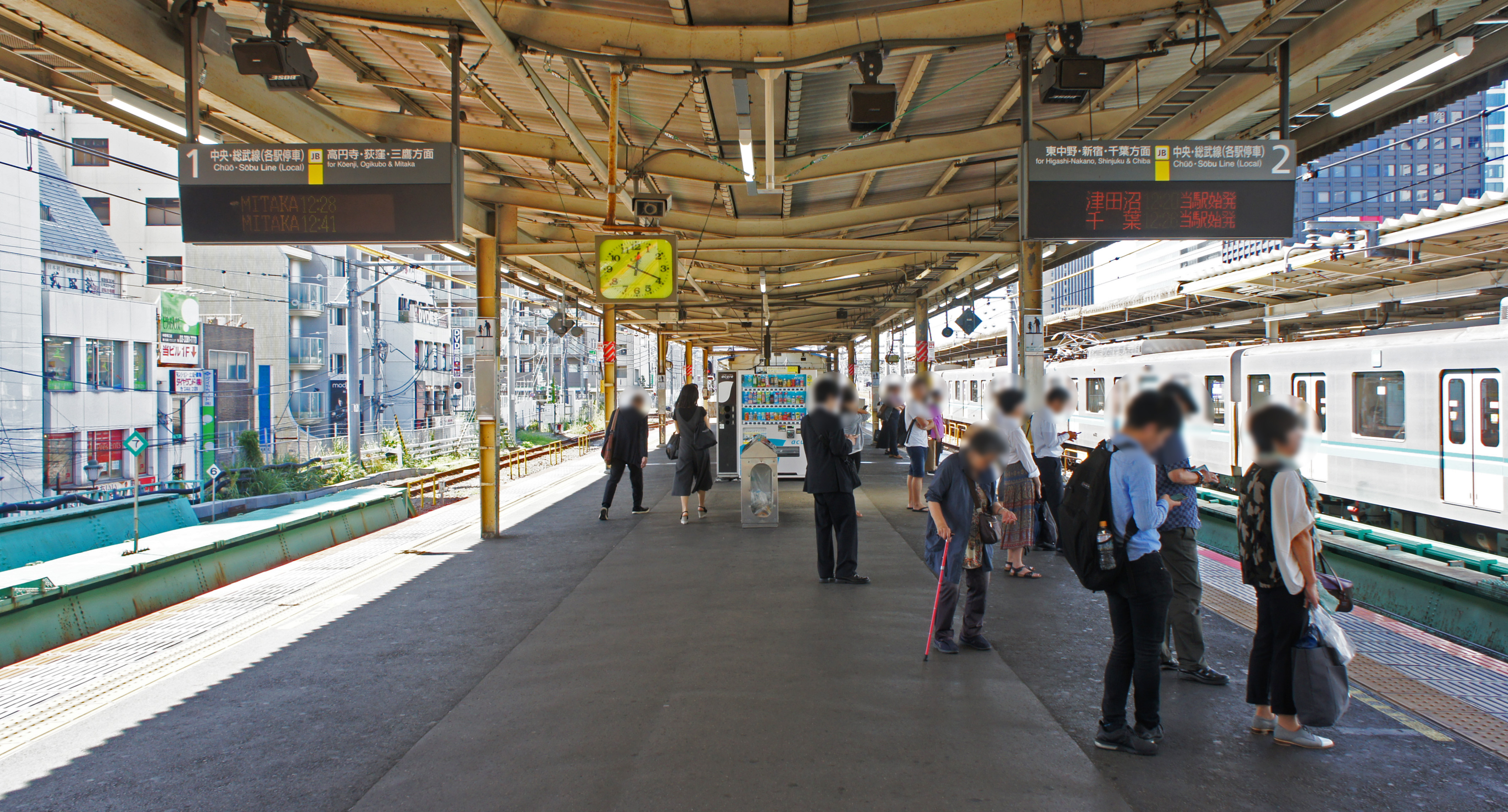 Platform 1・2 (Chuo-Sobu Line) of JR Chuo-Main-Line/Tokyo Metro Tozai-Line Nakano Station